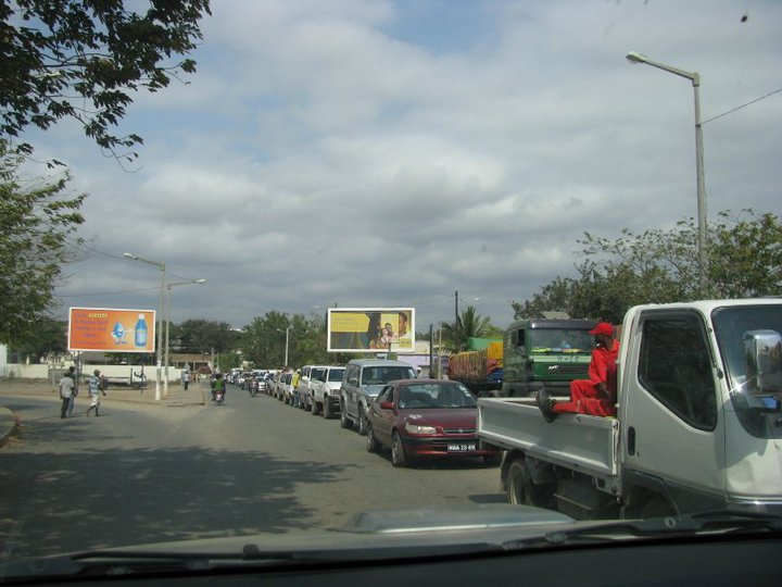 Cars and lorries but queue to cross the Tete Suspension Bridge, Mozambique, sometimes for up to a week.